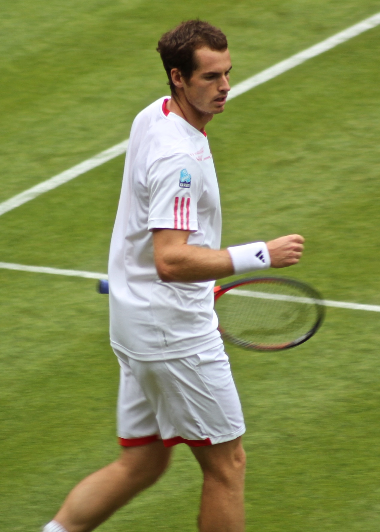 Andy Murray during his first round match against Davydenko.